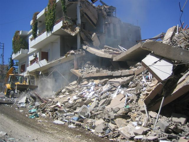 Bombed building in Baalbeck